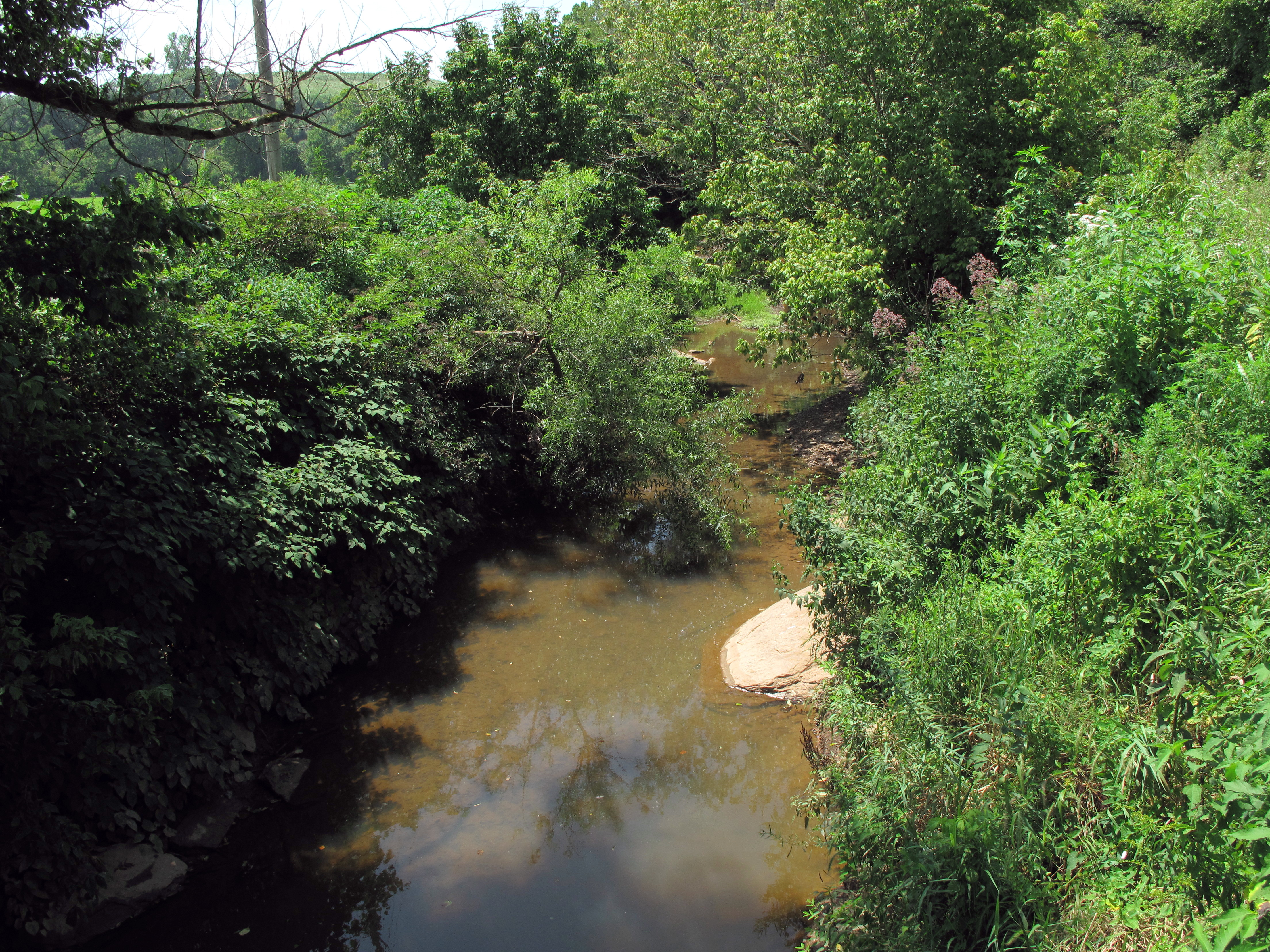 Tygart Creek as viewed from County Route 21/21, off County Route 40/5, near Mineral Wells, West Virginia